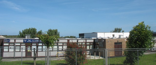 Ysgol Llaingoch Primary School